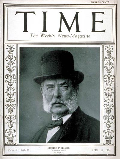 TIME Magazine Cover Depicting George F. Baker (14 Apr 1924)